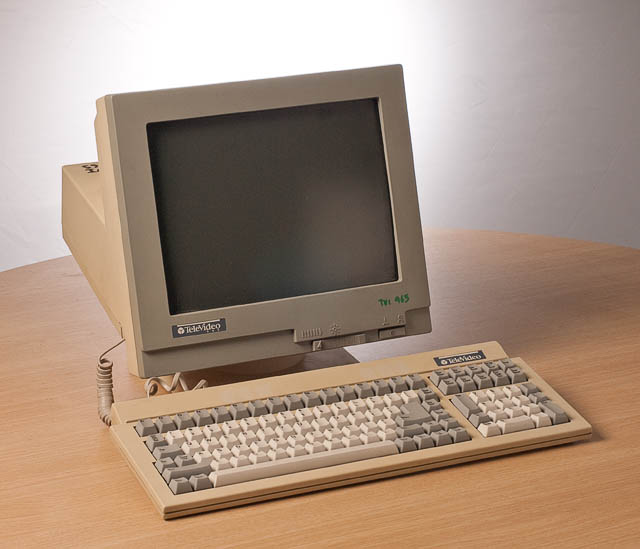 TVI965 terminal